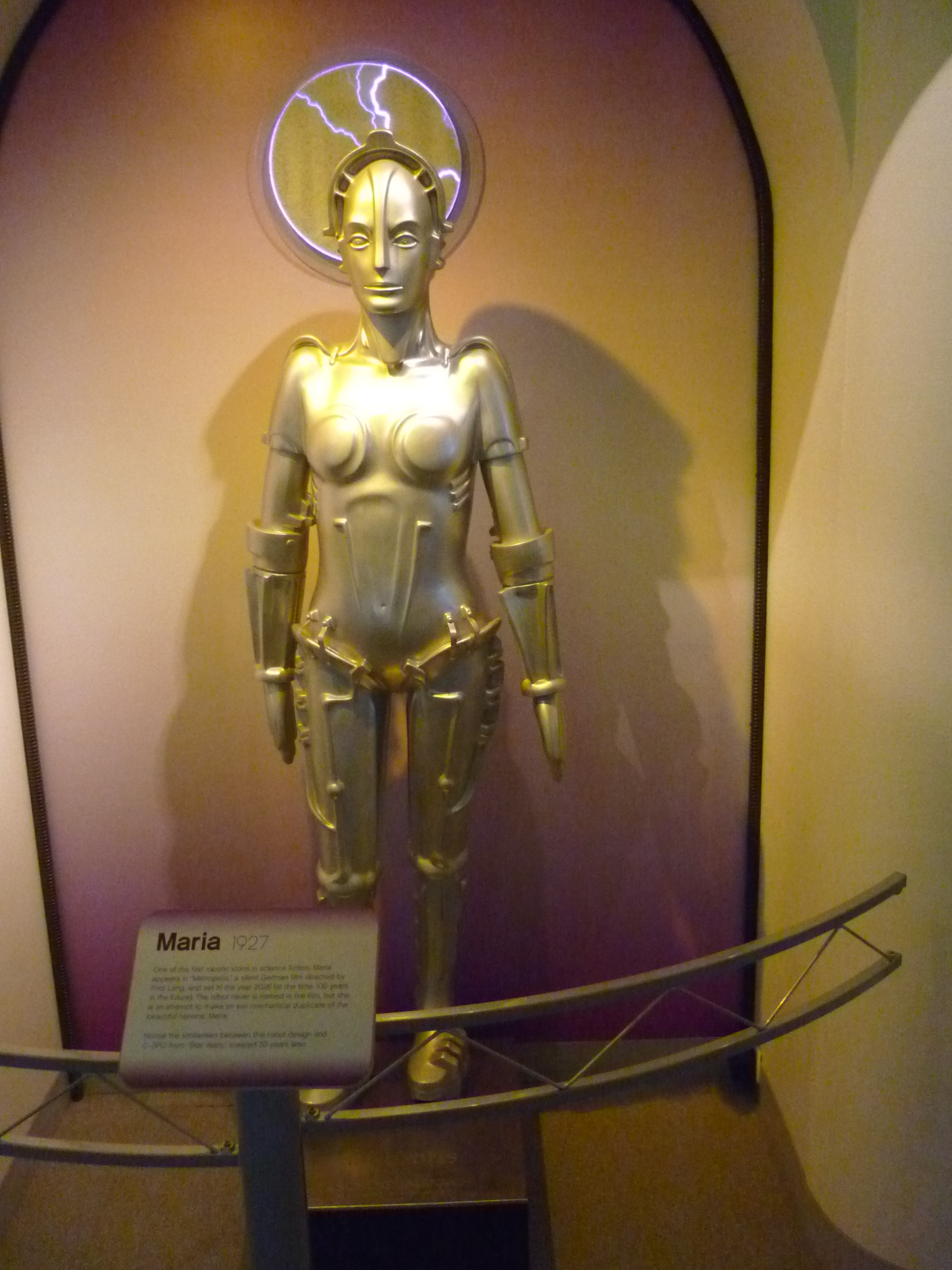 Replica of the Fritz Lang's "Metropolis" (1927) robotic character Maria, the Maschinenmensch, on display at the Robot Hall of Fame, inaugural class of 2006, in Carnegie Science Center, Pittsburgh, PA.